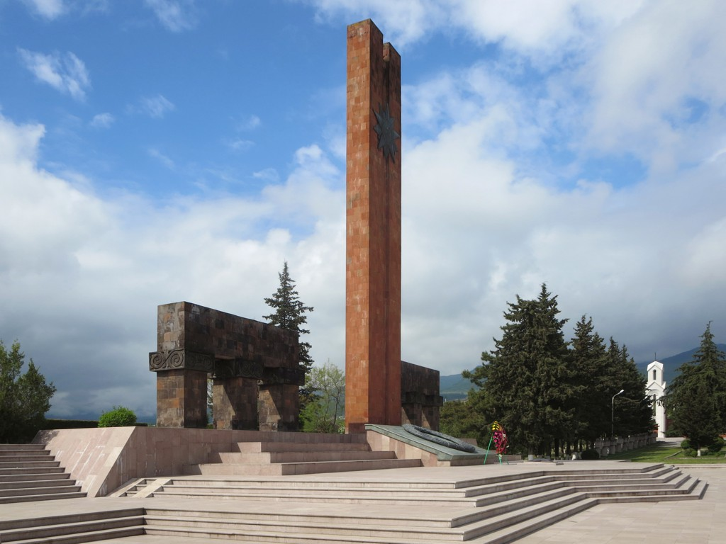 The Victory Monument in Stepanakert honors the sacrifices of both World War Two and the Nagorno Karabakh independence war.